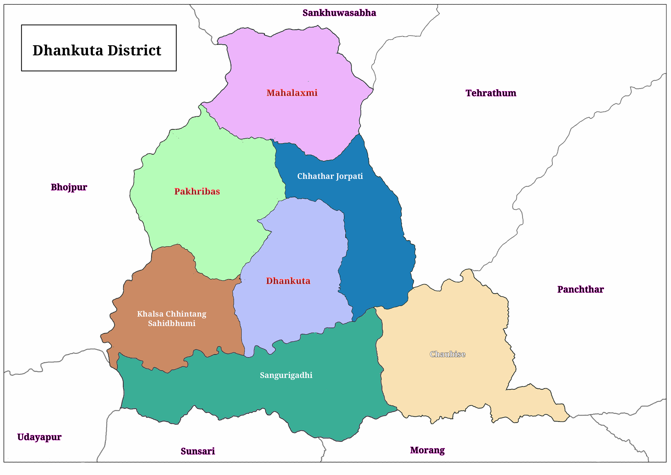 Map of Dhankuta with urban and rural municipalities